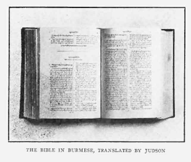 The Bible in Burmese translated by Judson